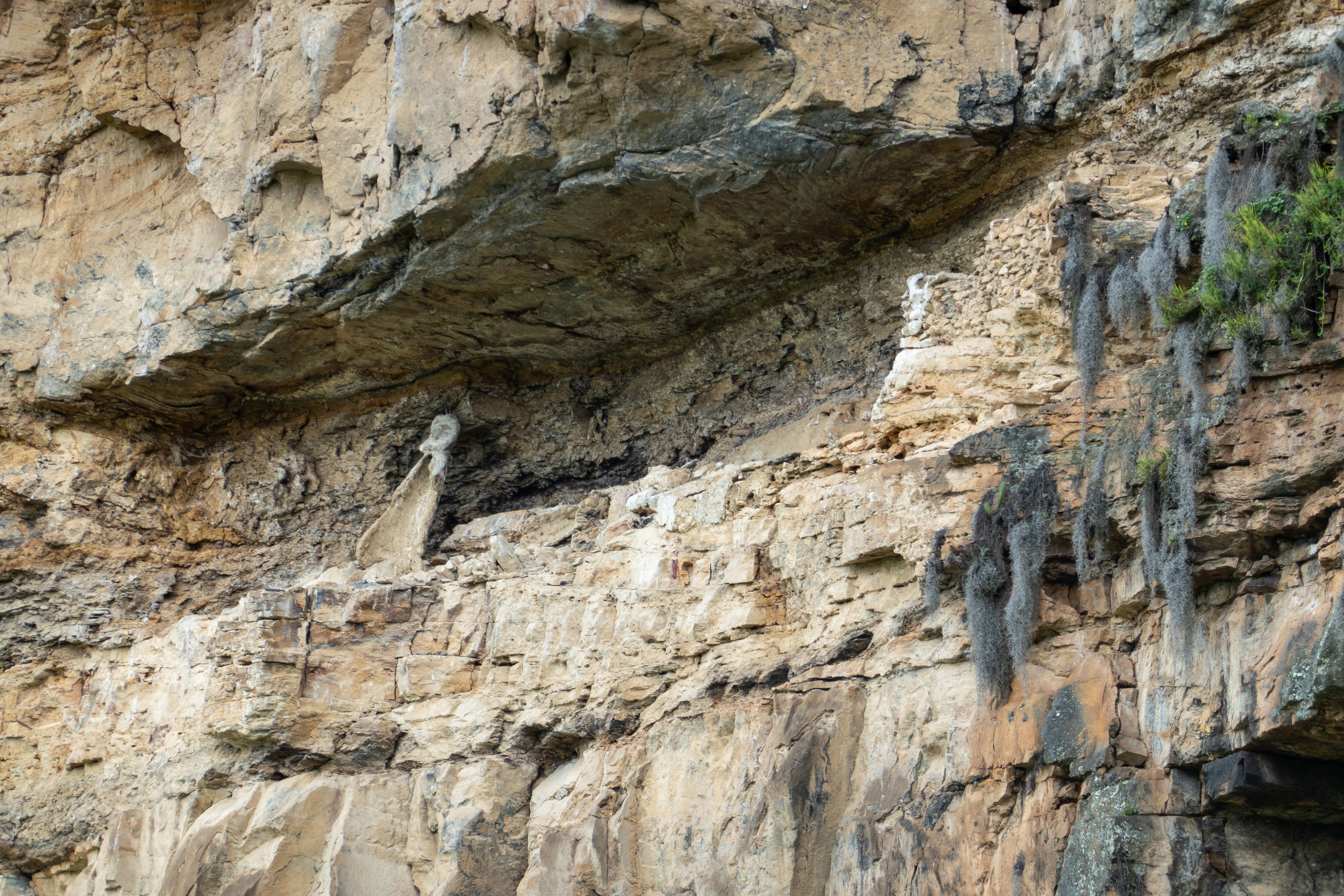 Sarcófagos de Karajía